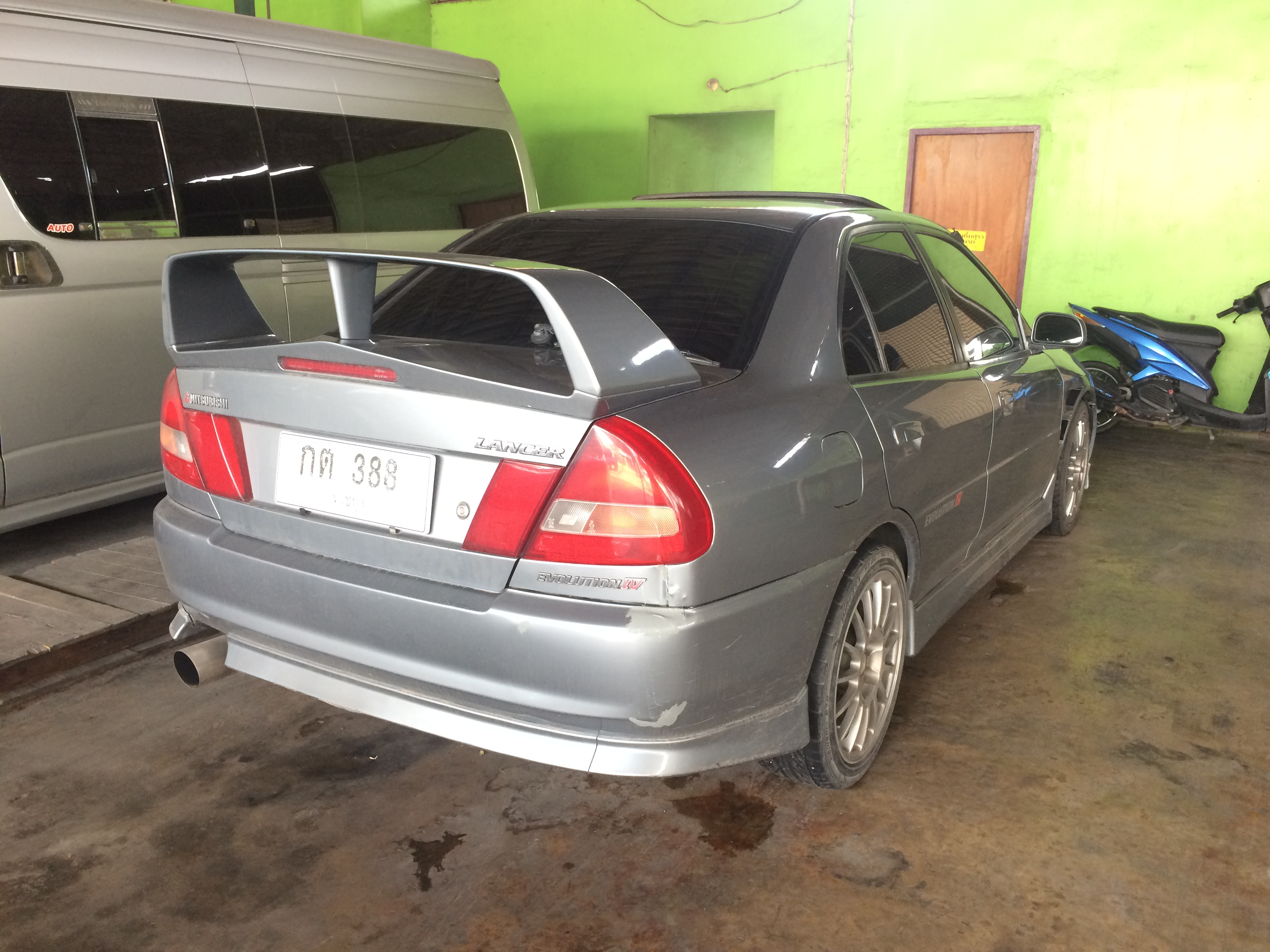 Mitsubishi Lancer GSR Evolution IV (CN9A) in Thailand.